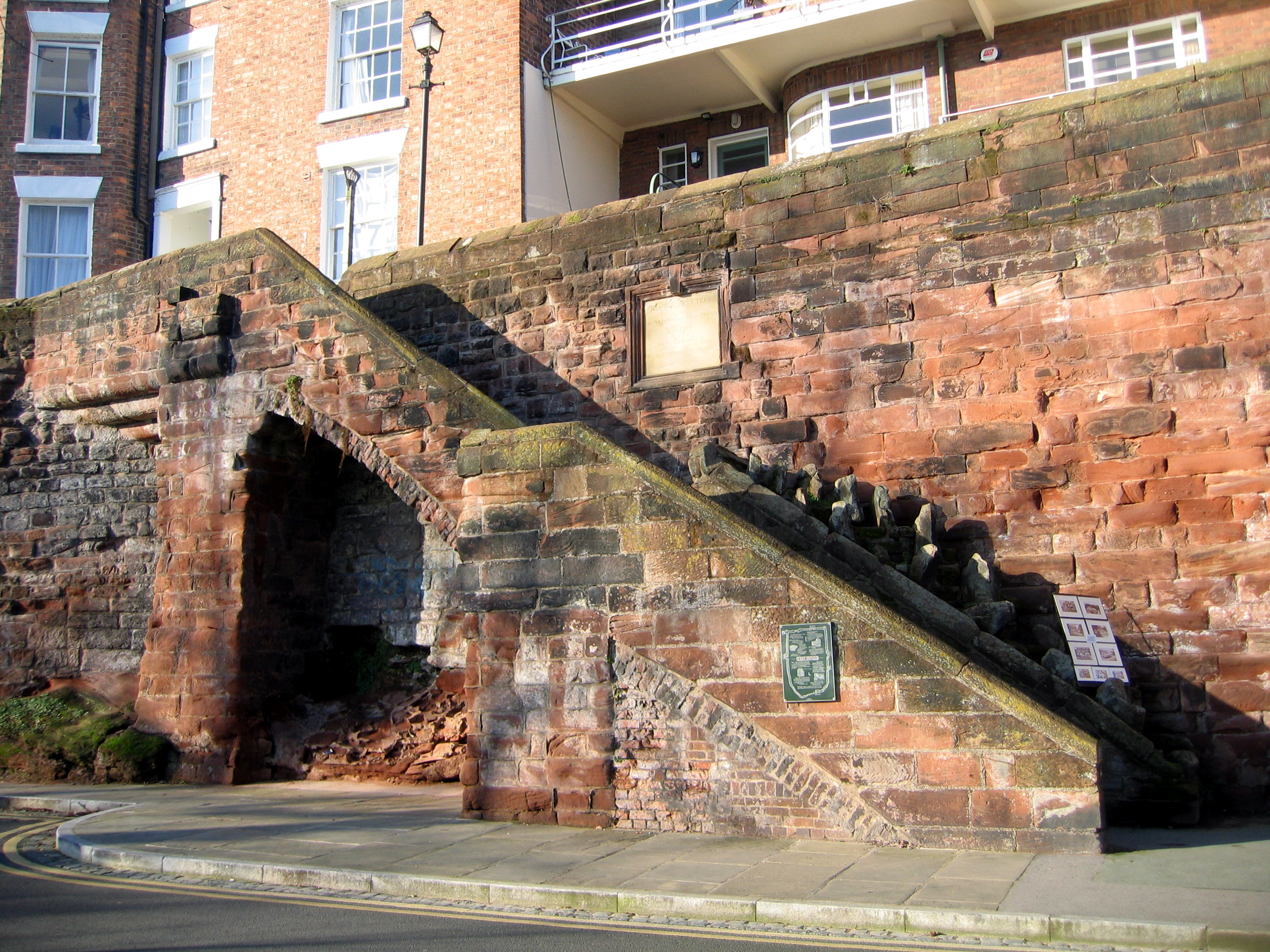 Photograph of the Recorder's Steps, Chester City Walls